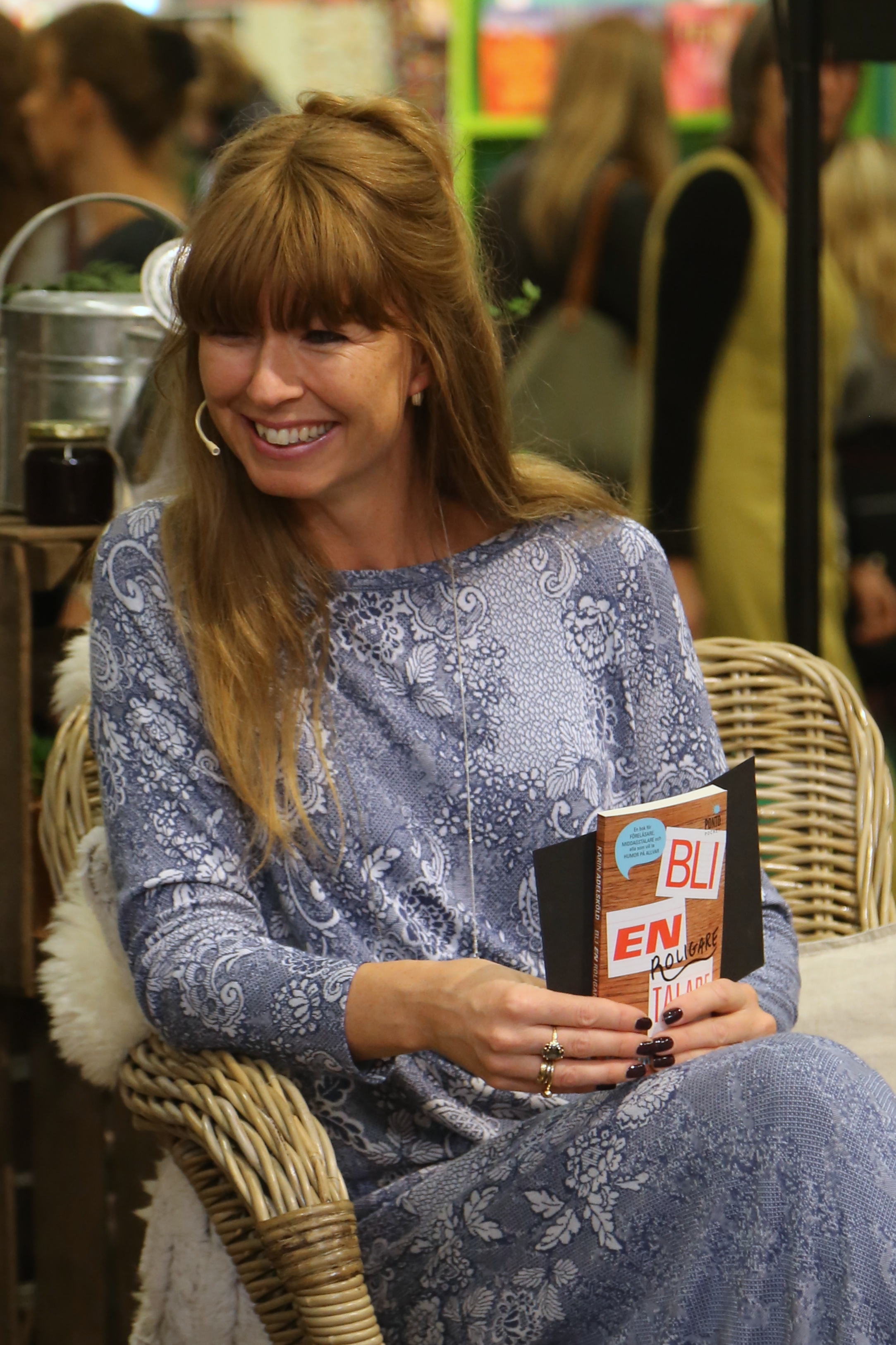 Frida Zetterström at the Gothenburg Book Fair 2014.